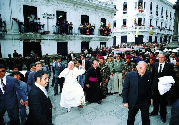 Pope John Paul II visits Quito in 1985